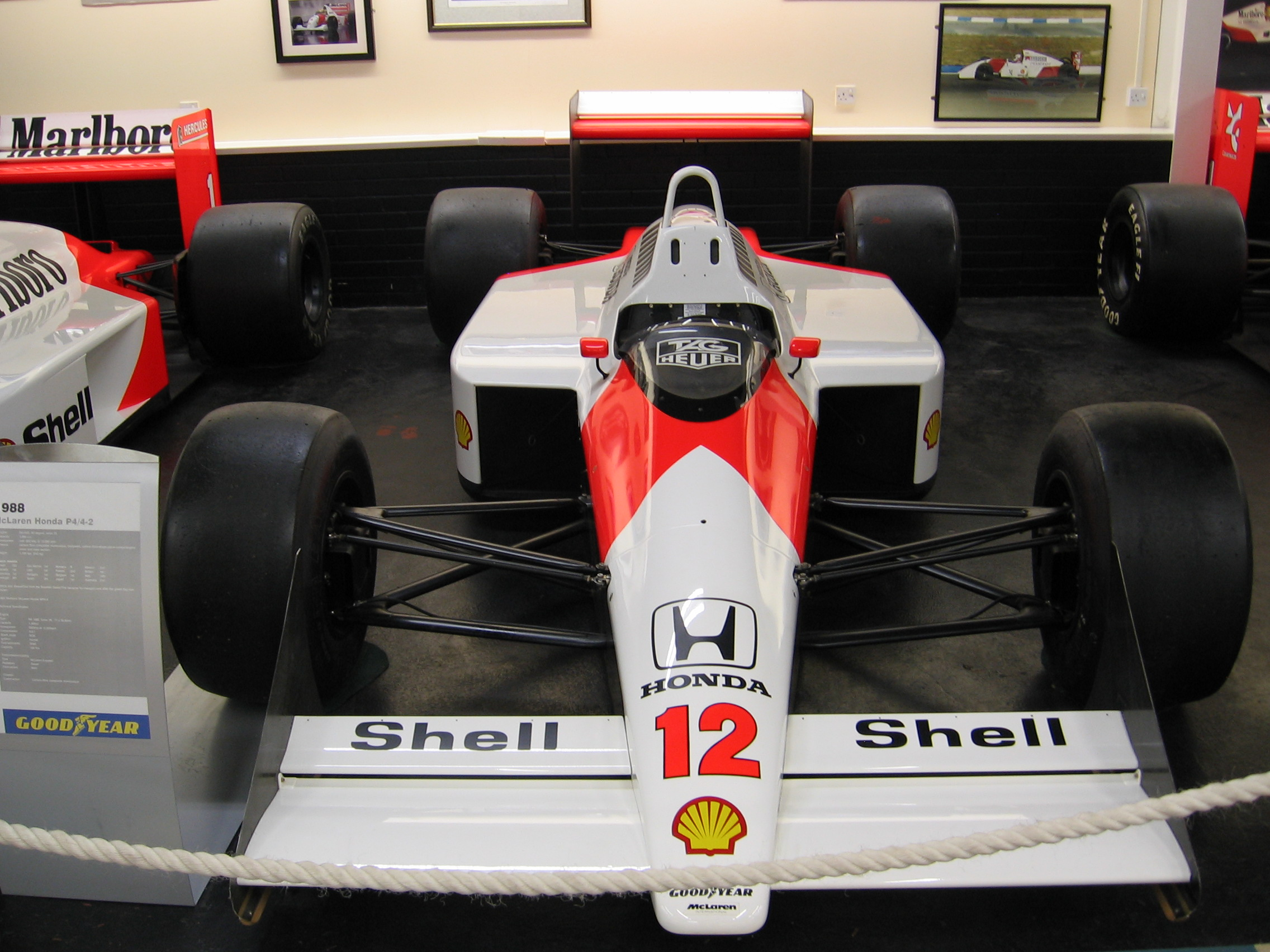 Mclaren MP4/4 chassis number 3: The only chassis not to complete a Grand Prix in First position